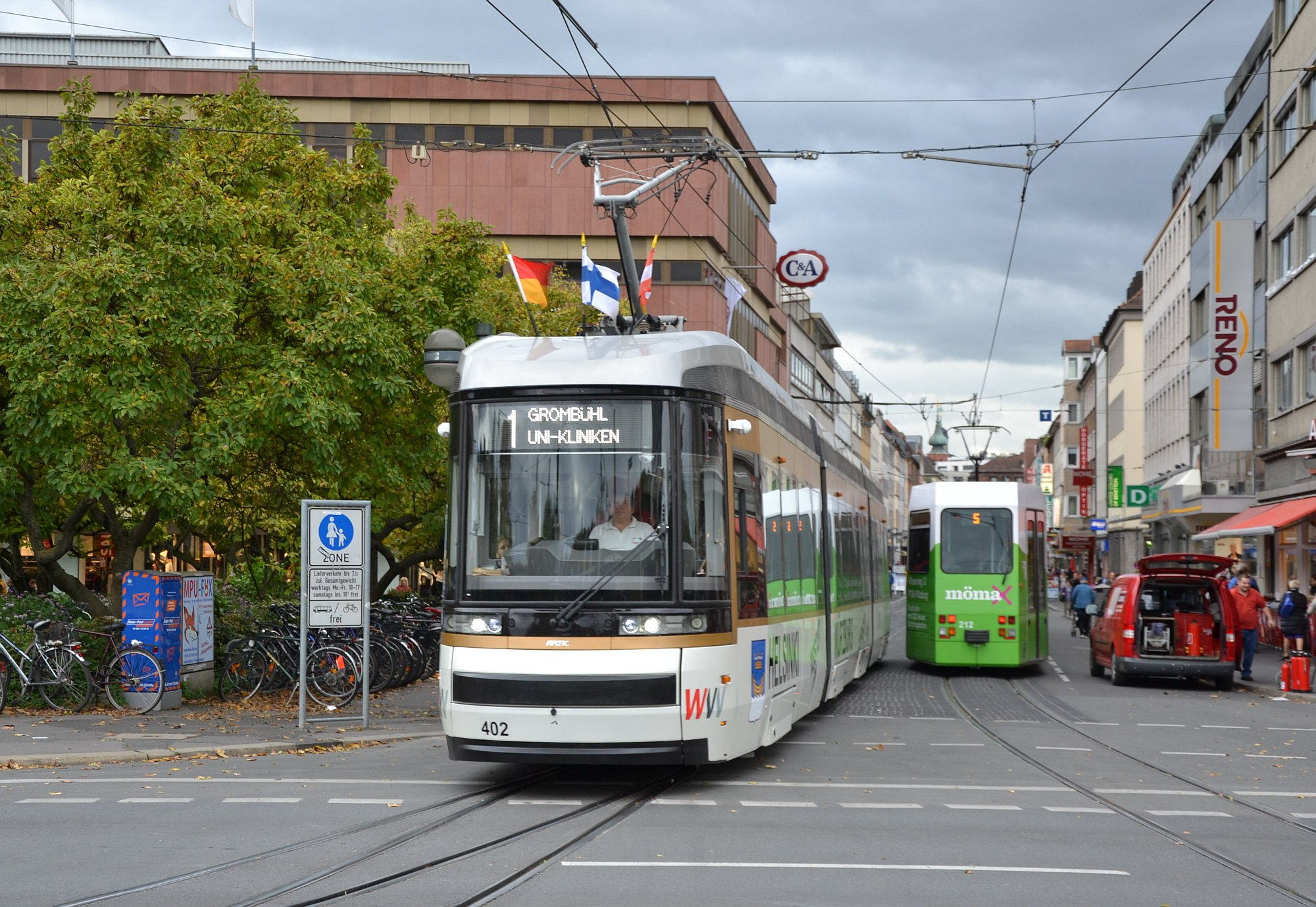 Helsinki's Transtech Artic tramcar no. 402 in white and golden decoration during the trial runs in Würzburg, Germany, approaching the central station loop.